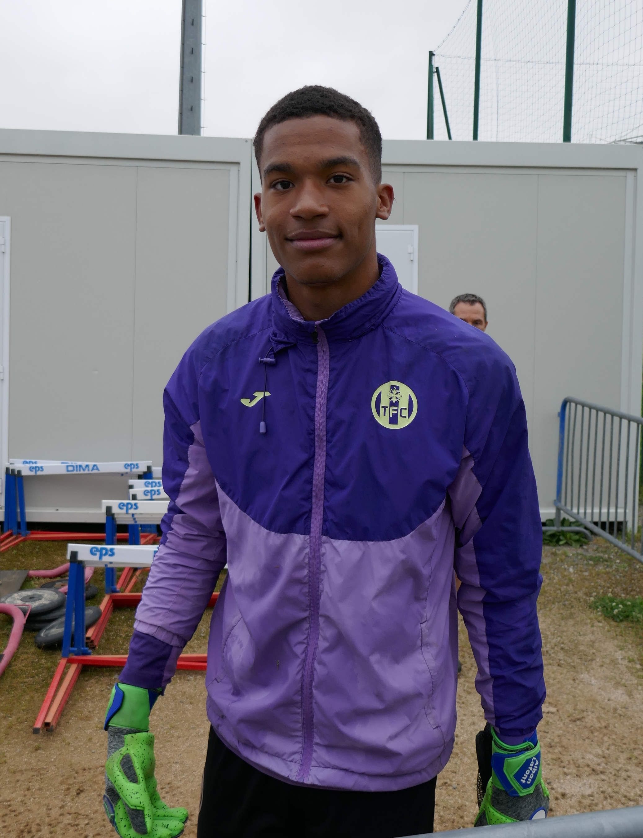 Alban Lafont on a training session, the 9th May of 2018, at the training center of the Toulouse Football Club.